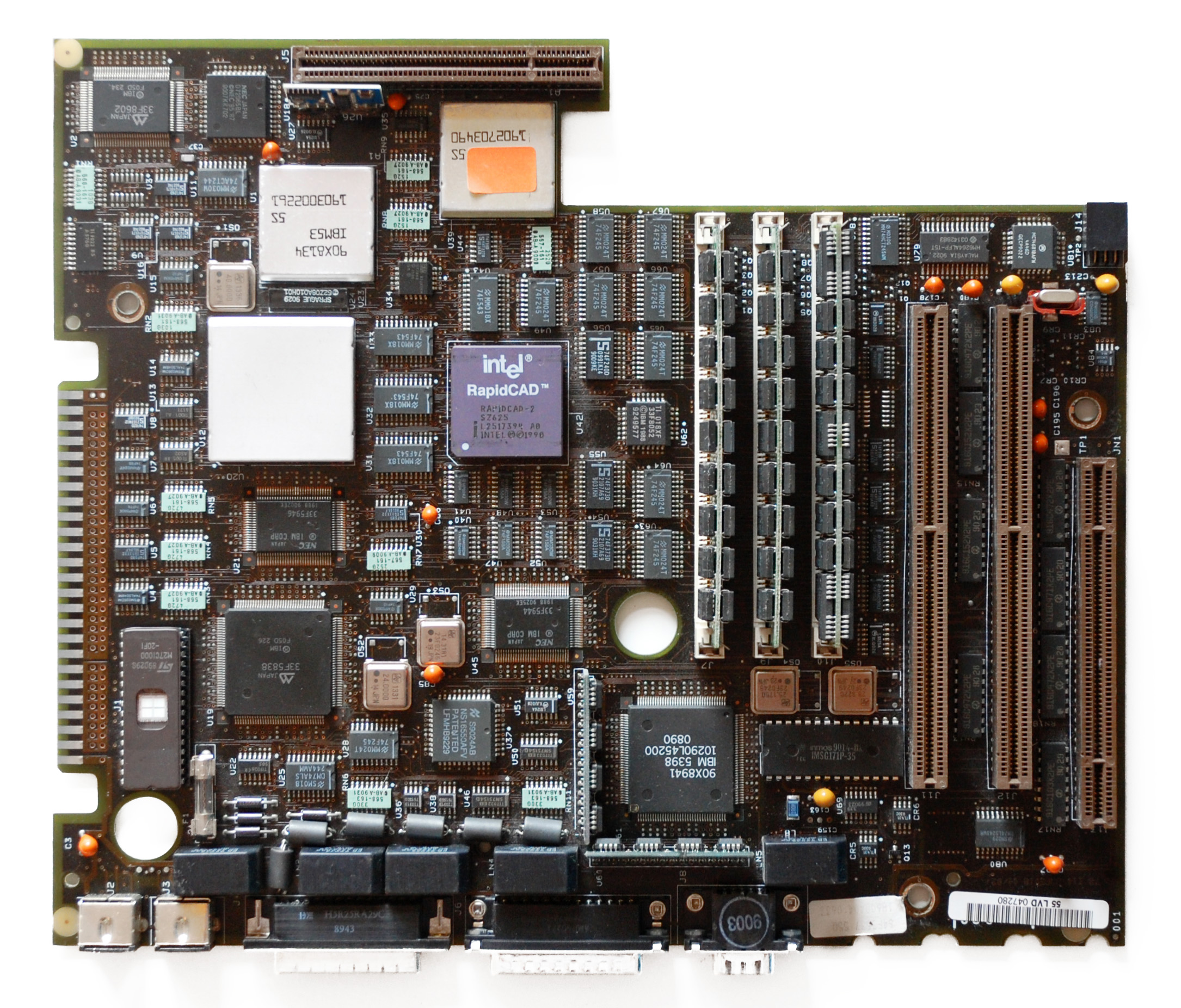 PS/2 Model 70 (8570-121) MCA motherboard mit original IBM Intel 386 microprocessor. RapidCad-2 PLA (Programmable Logic Array) and STMicroelectronics EPROM only installed for demonstration and might not work in actual.